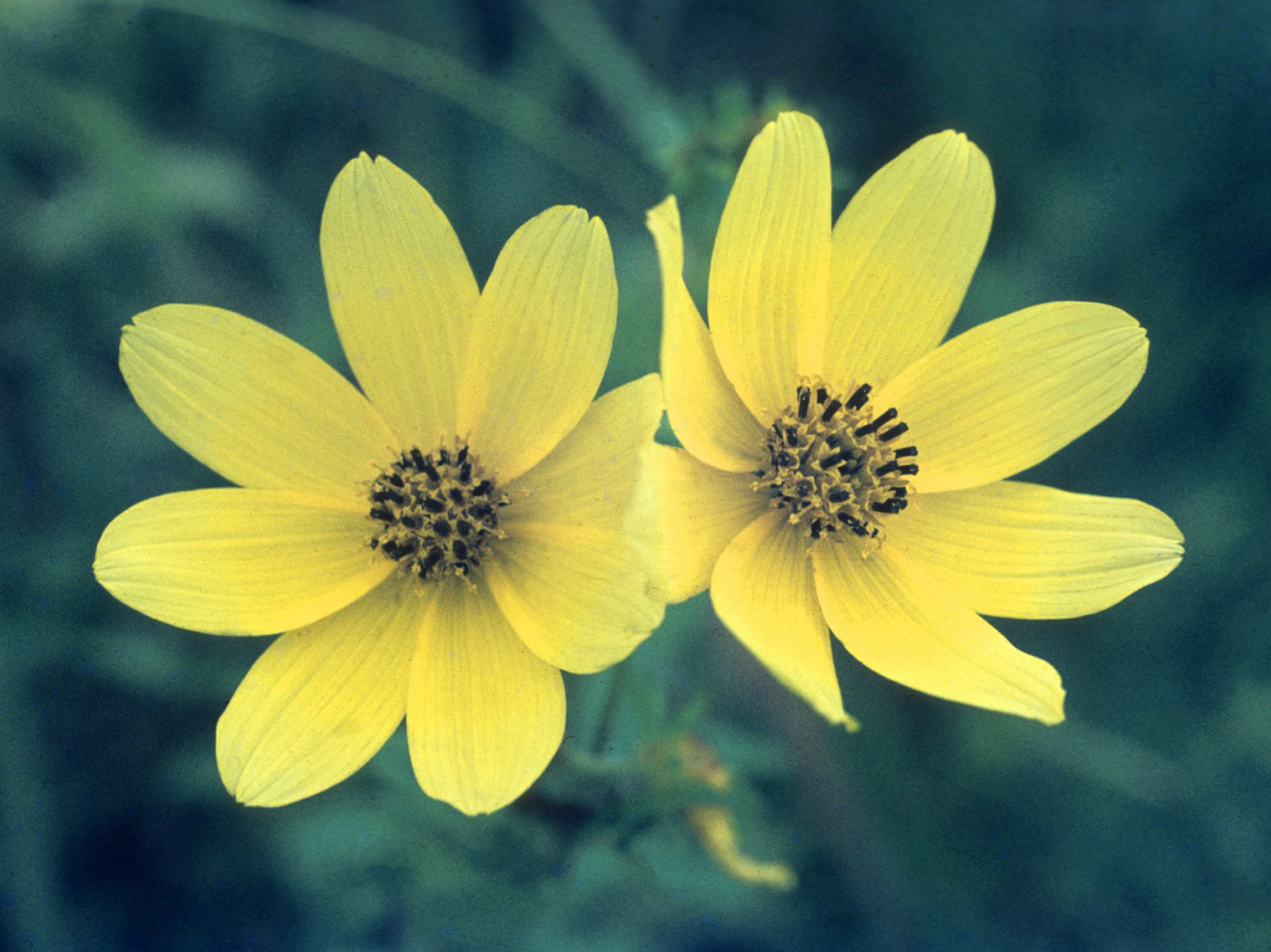 Bidens trichosperma (Michx.) Britton (1893) - crowned beggar-ticks, crowned tick-seed sunflower [syn. Bidens coronata (L.) Britton]